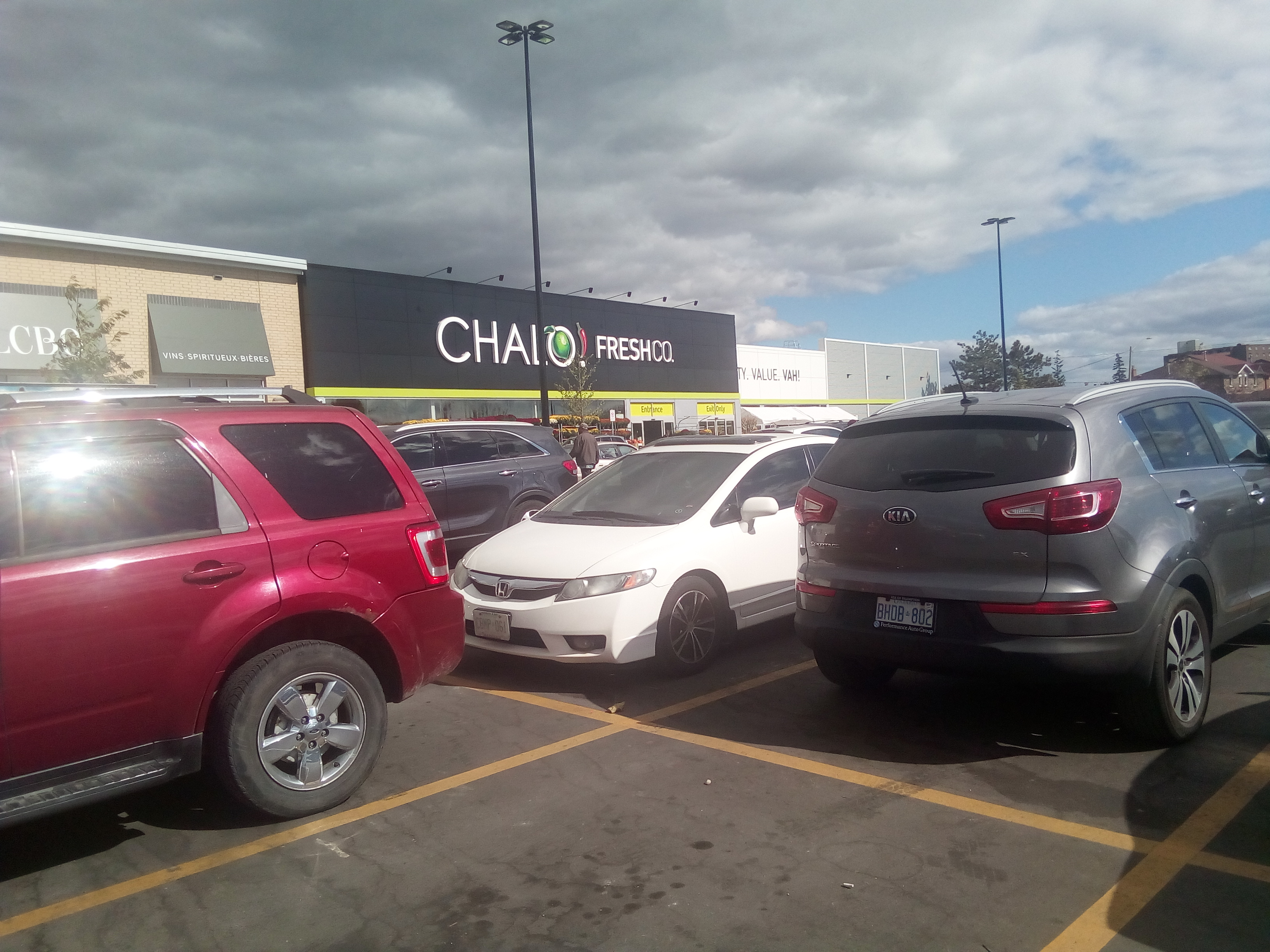 Westwood square